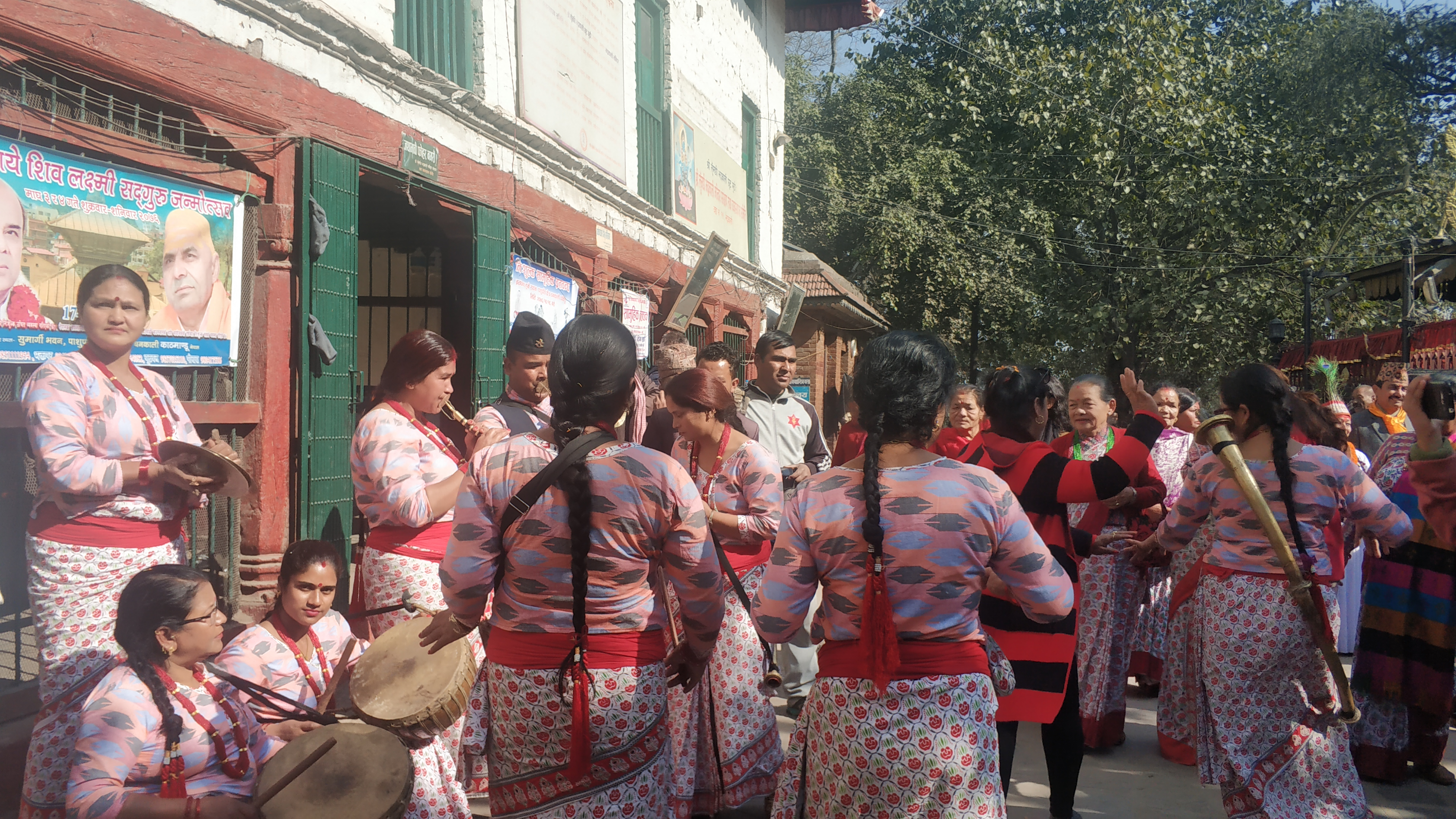 The Panche baja is a set of five traditional Nepali musical instruments that are played during holy ceremonies, especially marriages. This photo has been taken in the country: Nepal